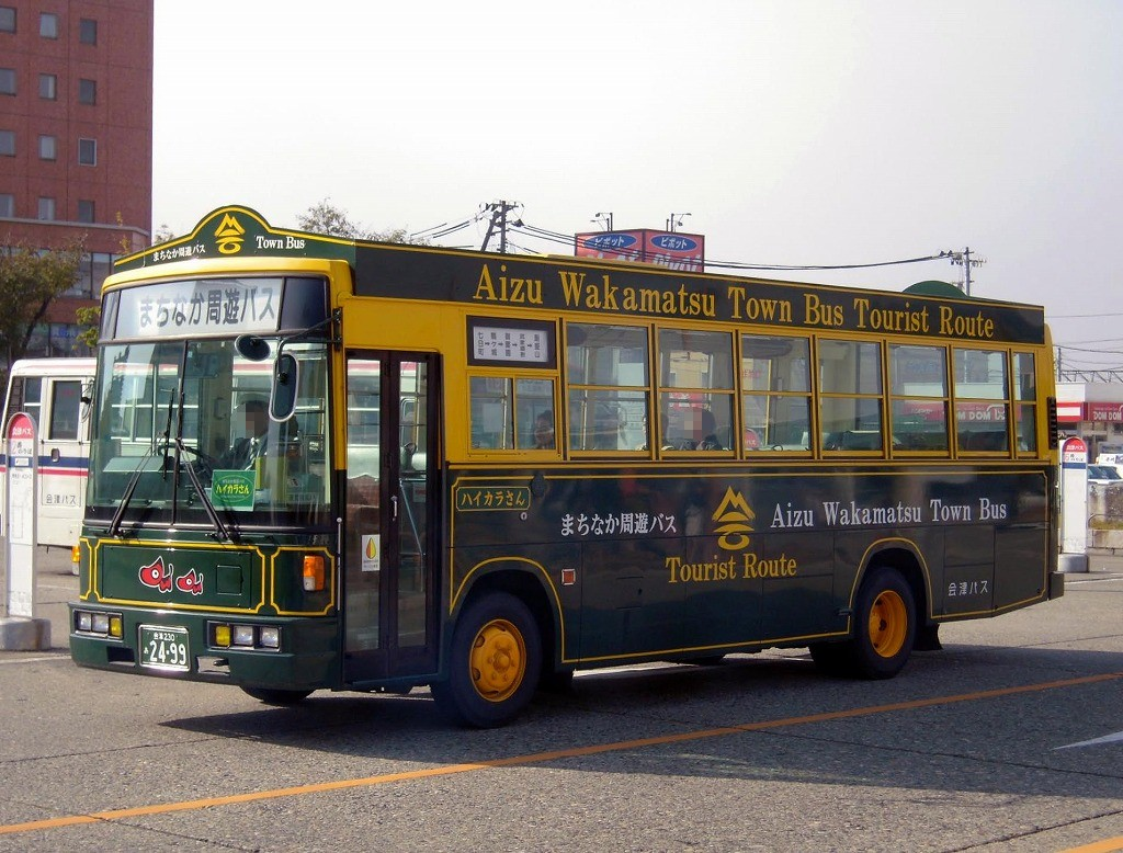 Aizu bus Nissan Diesel Spece Runner (KC-RM211GAN)for Aizu Wakamatsu city roop bus "Haikara-san" extra